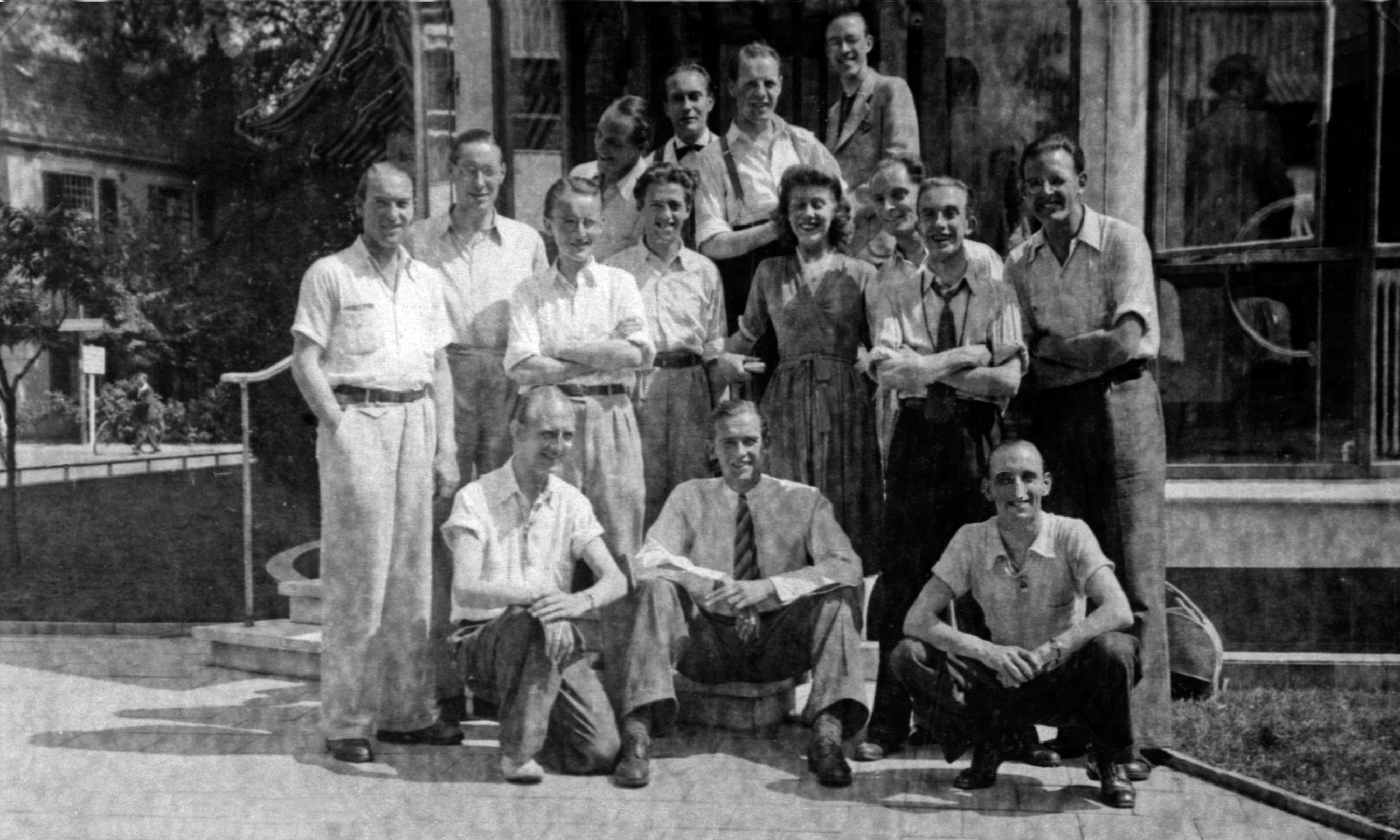 Photo taken from a private collection.